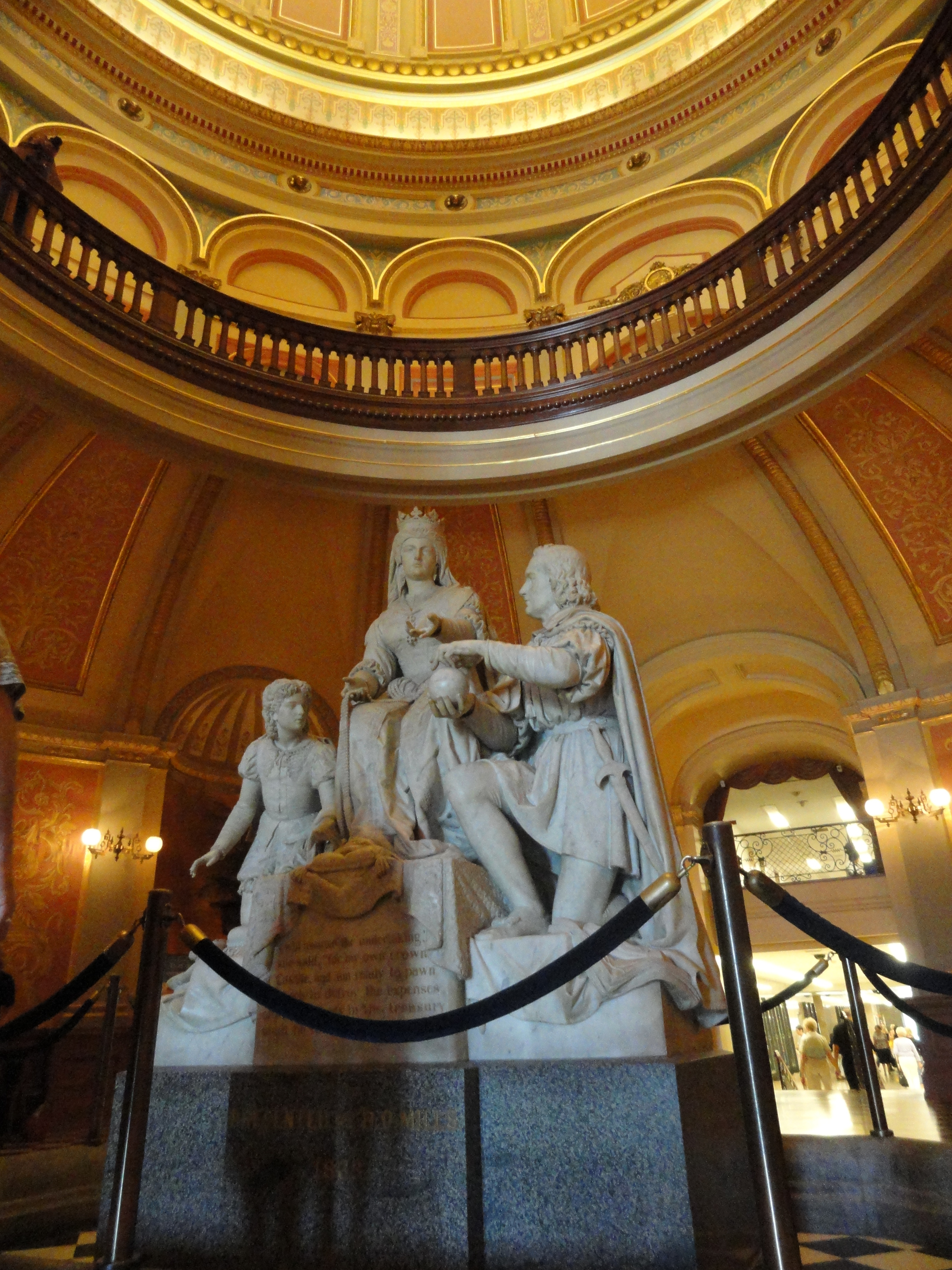 Statue of Queen Isabella I of Spain and Christopher Columbus at the California State Capitol, Sacramento, California